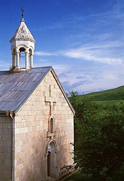 Amaras Monastery (4th century), Nagorno Karabakh